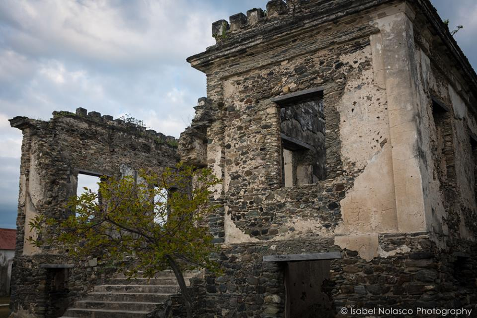 Prison of Ai Pelo